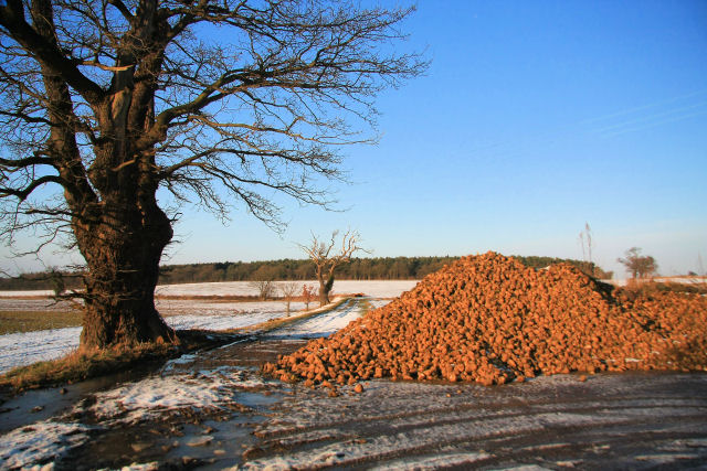 Pile of sugar beet The local farmer stores his sugar beet crop on an area of hard-standing, adjacent to the Bury Road at Little Saxham.